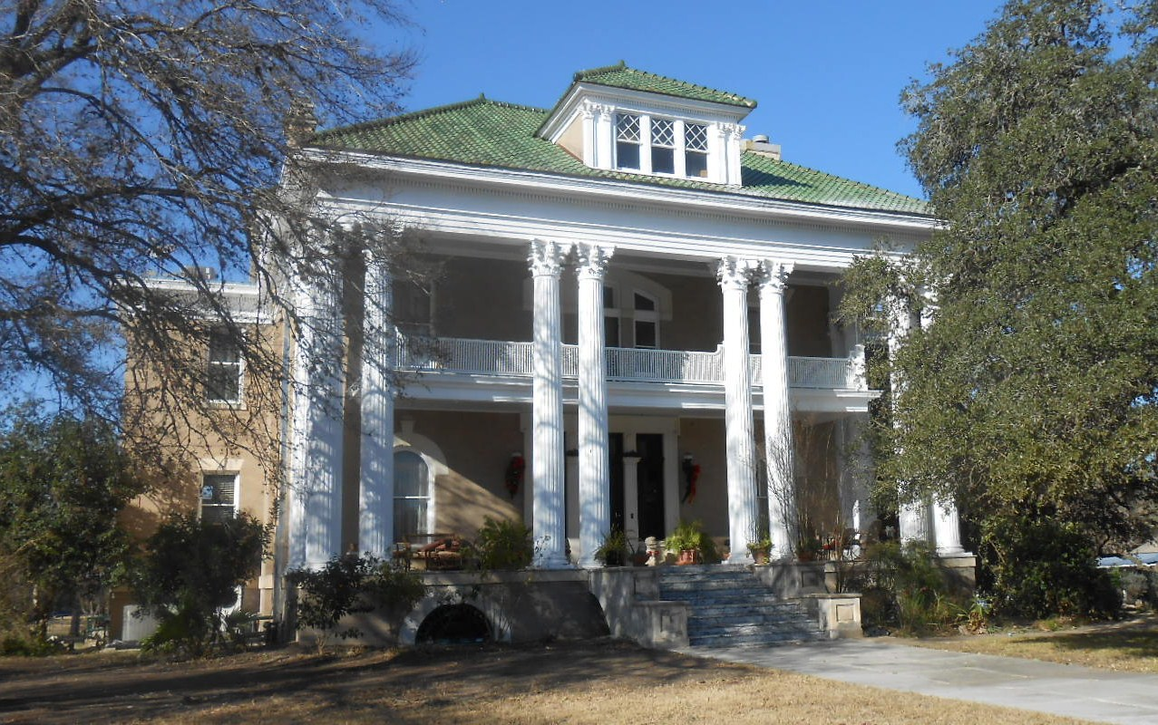 The R.S. Dilworth House at 903 St. Lawrence St., Gonzales, Texas was designed by J. Riely Gordon in the Greek Revival style in 1911.